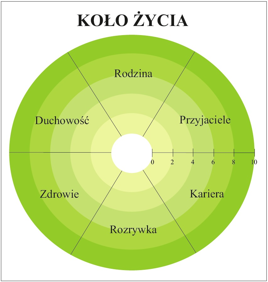 Wheel of Live - a coaching tool